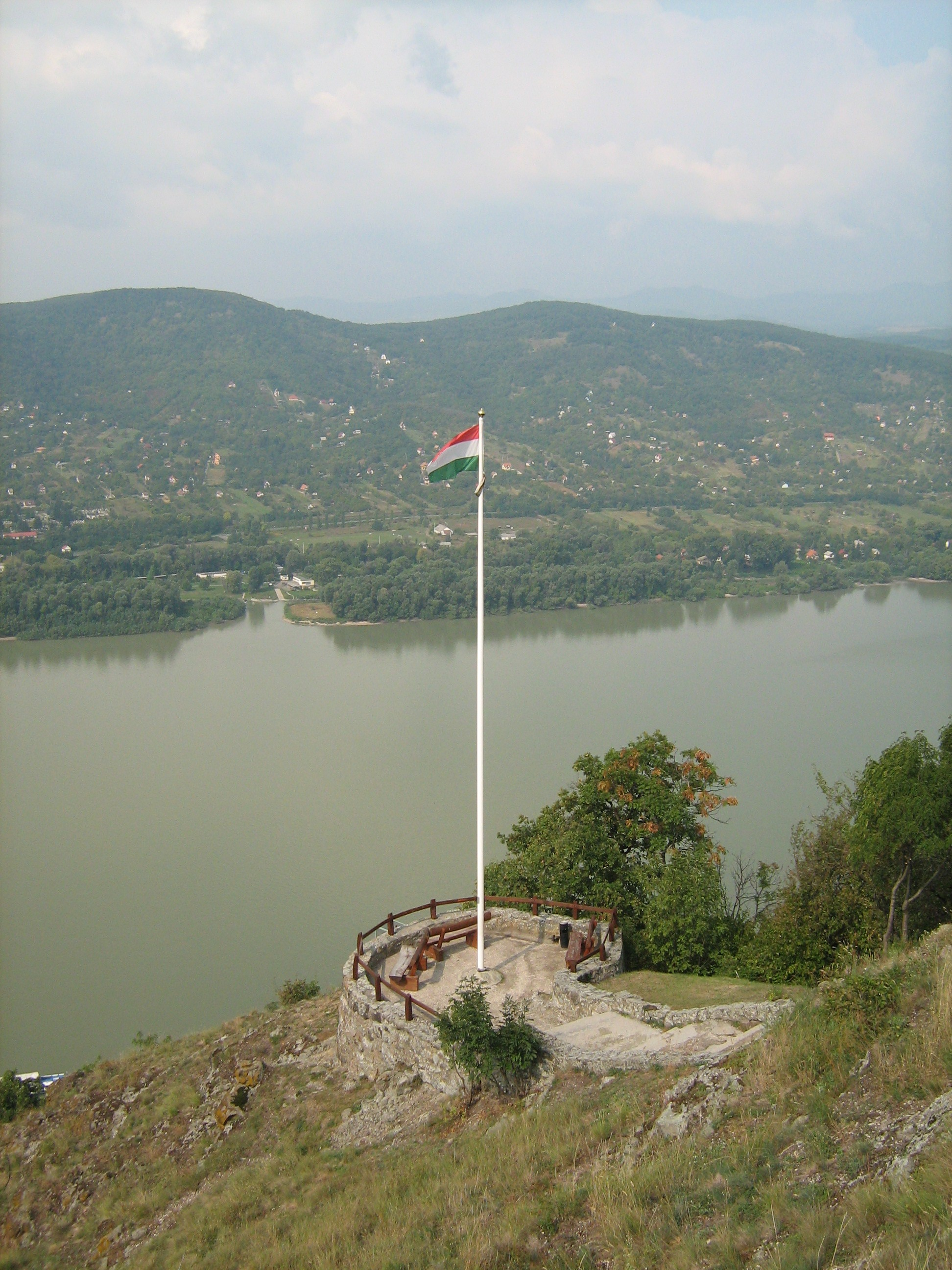 Donau seen from the castle in Visegrad. In front the hungarian flag.